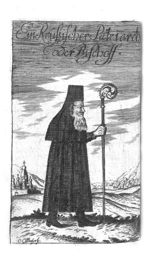 Georg Adam Schleissing "Derer beyden Czaaren in Reussland Iwan und Peter Alexewiz"